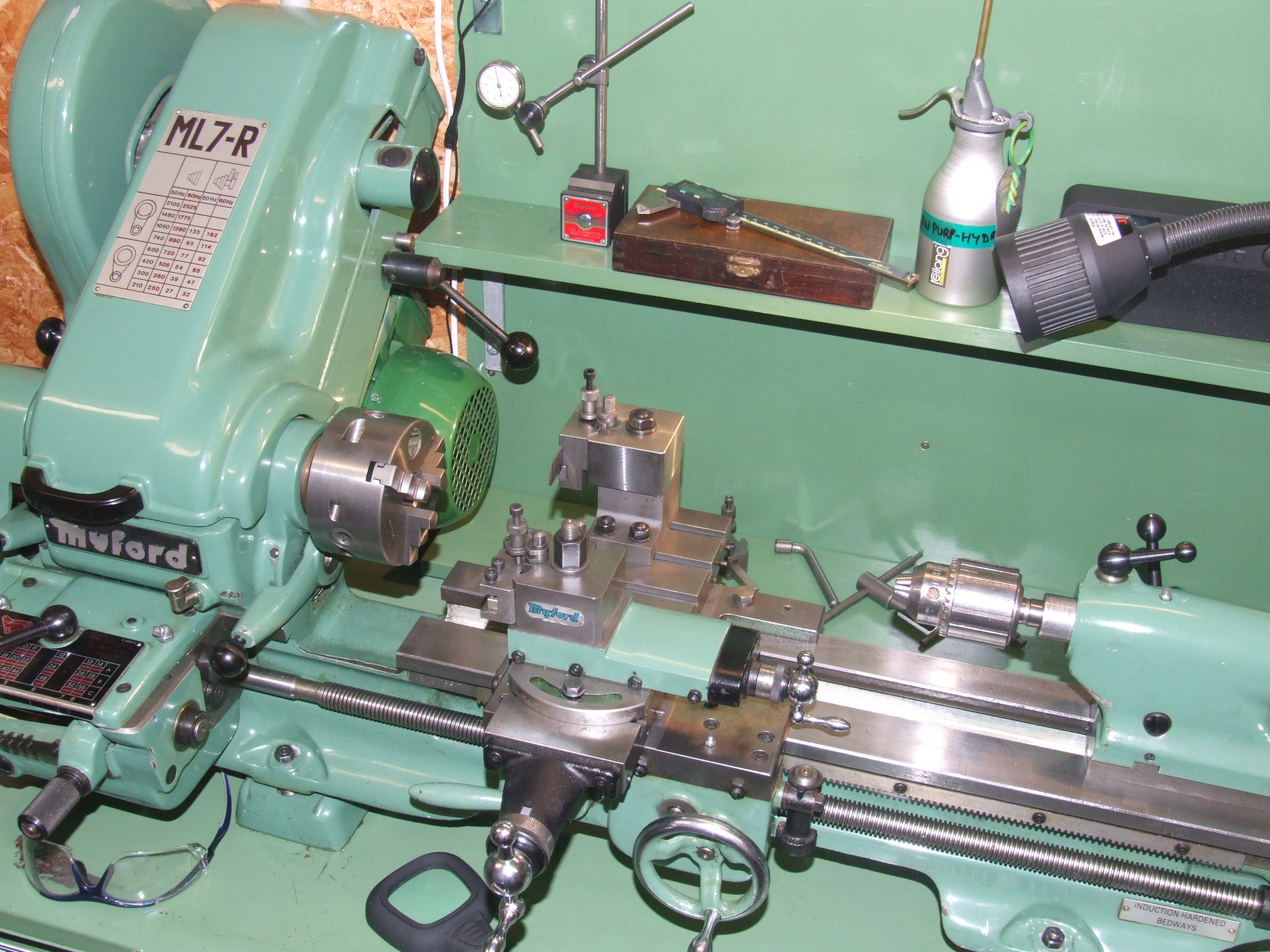 A Myford ML7R metal-turning lathe, made in 1986. Illustration for Model_engineering